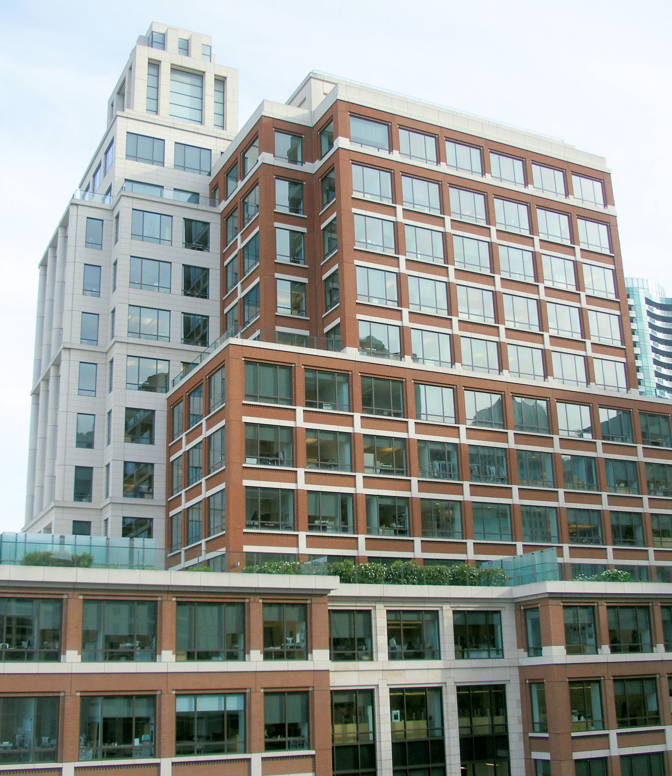 The headquarters of The Gap, Inc. in San Francisco, California.